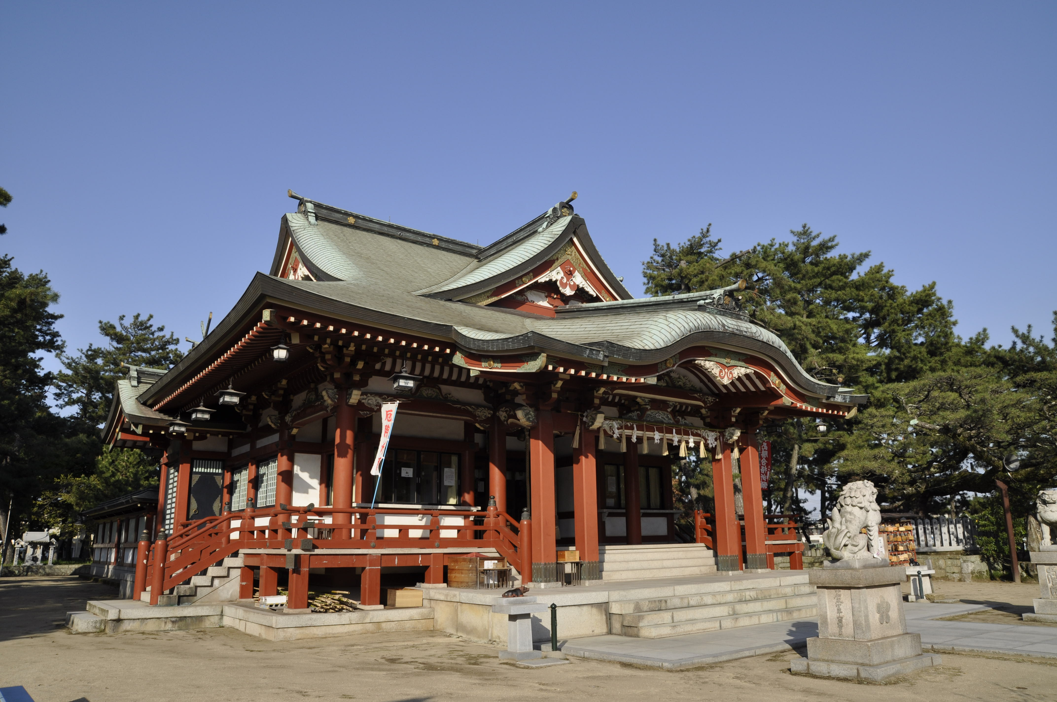 Hamanomiyatenjinsha in Kakogawa, Hyogo prefecture, Japan